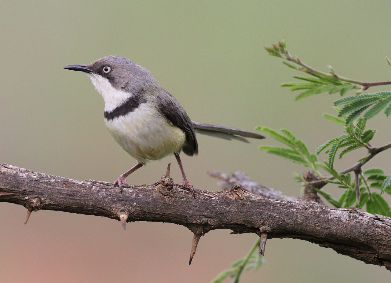 Bar-throated apalis at Marakele National Park, Limpopo, South Africa